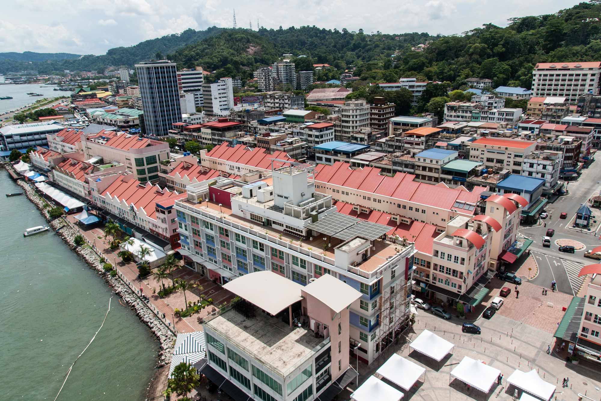 The old town in Sandakan, Sabah - View from Harbour Mall 2012